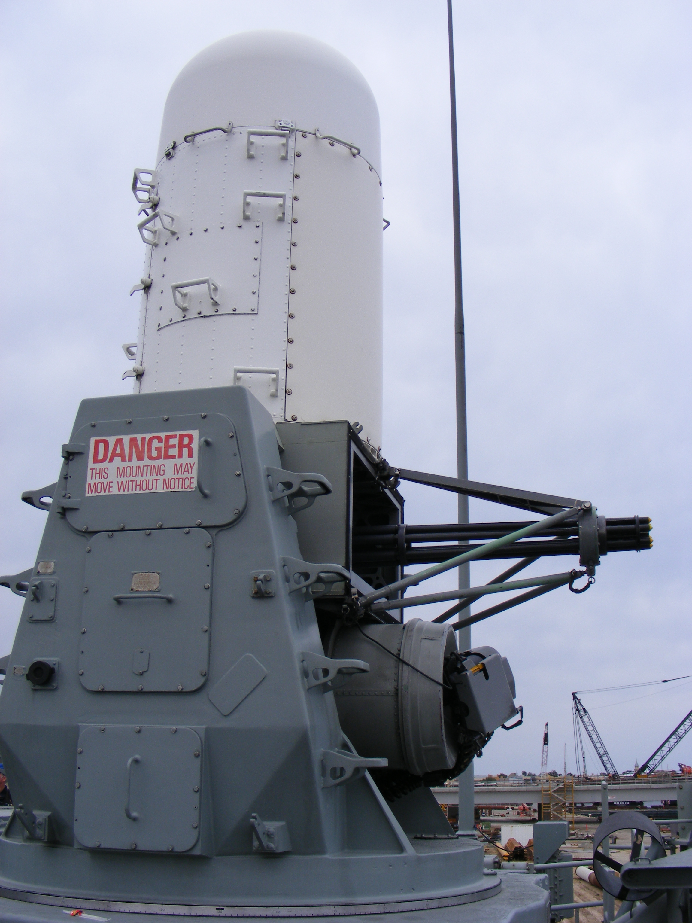 The Phalanx CIWS anti-missile Gatling gun, Mark 16, Mod 2 on the stern of the HMAS Adelaide (FFG01) Photo taken on an open day at Dock 2, Port Adelaide, South Australia